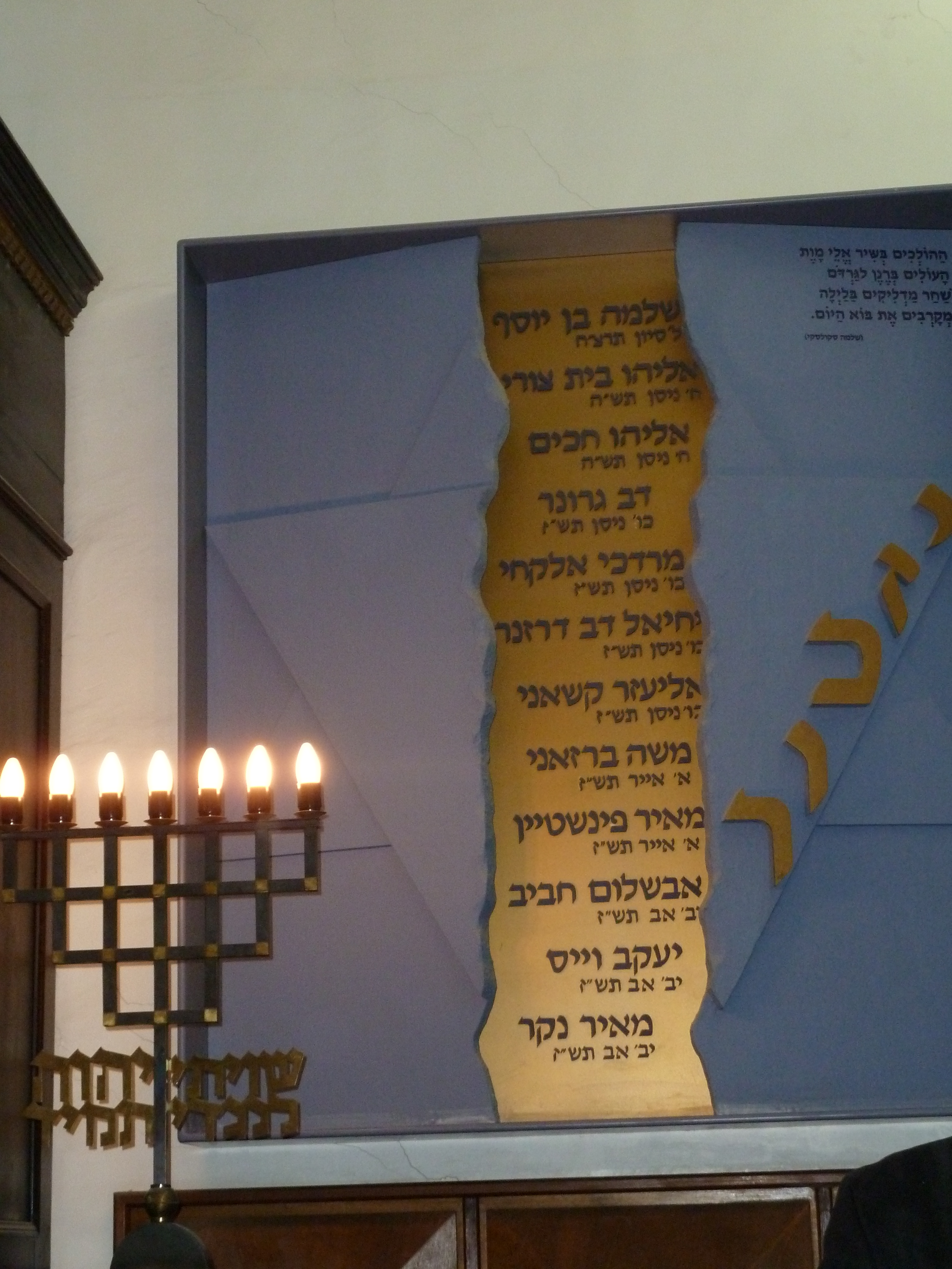 Achdut Israel - Olei Ha Gardom Synagogue